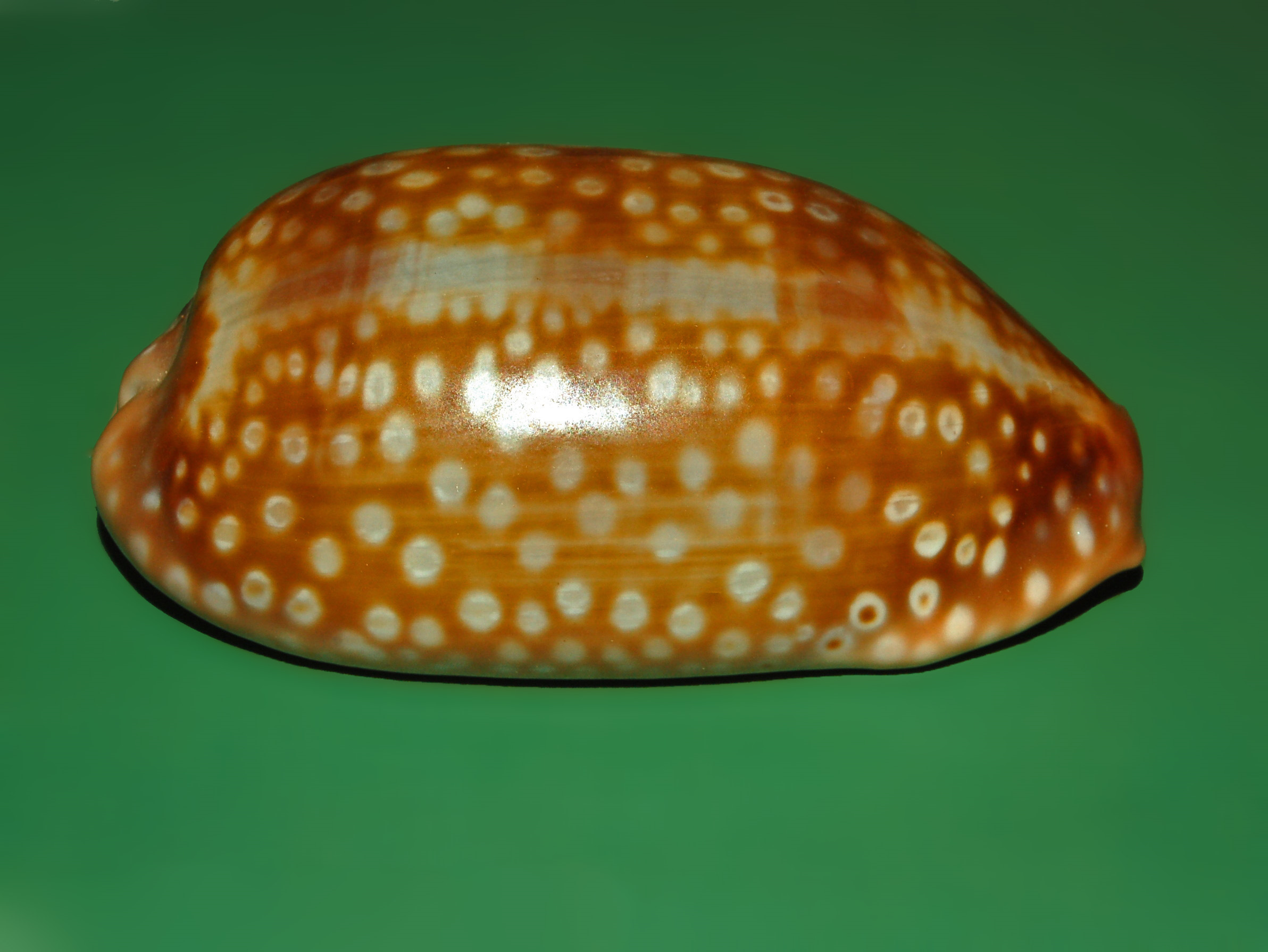 Macrypraea zebra - Panama